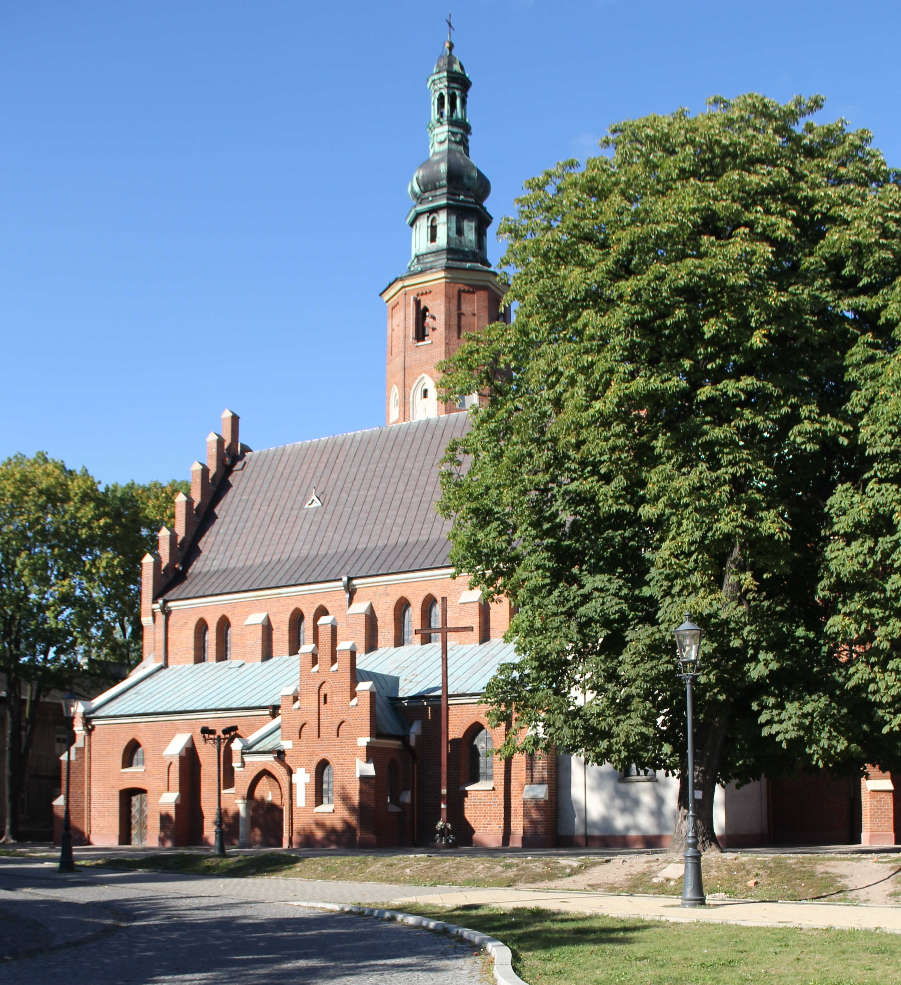 Church of Saint John the Baptist in Radom by night. XIV Century.